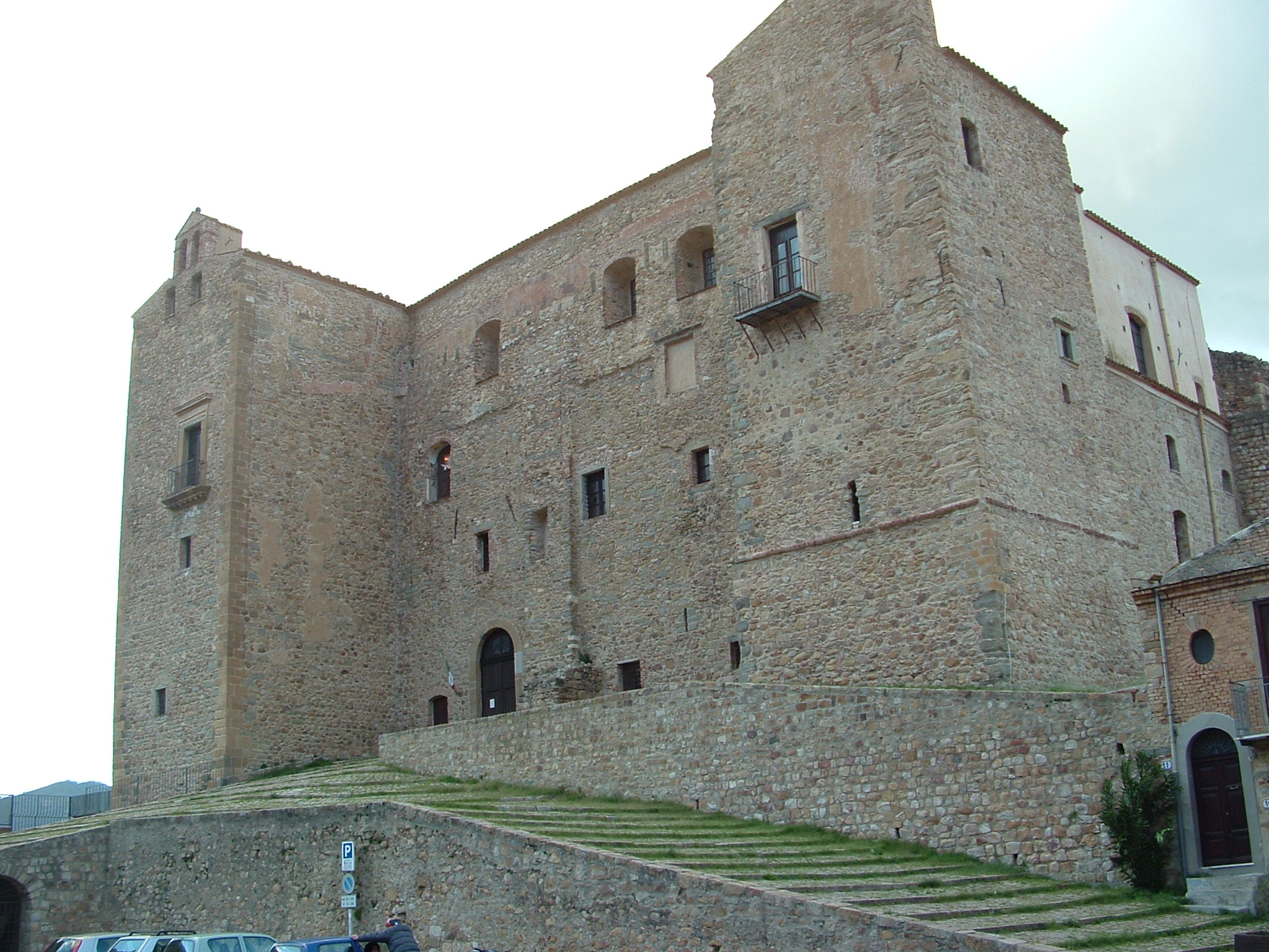 Castle of Castelbuono, Provincia di Palermo, Sicily, Italy